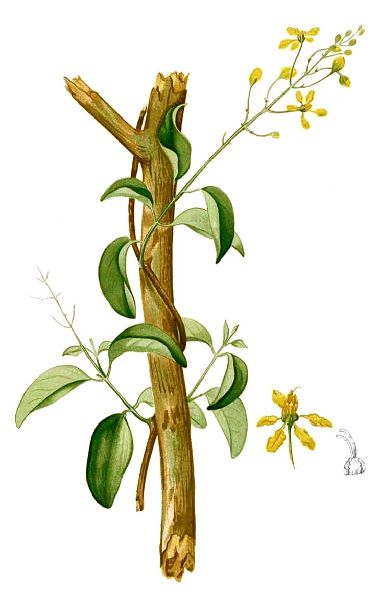 Plate from book